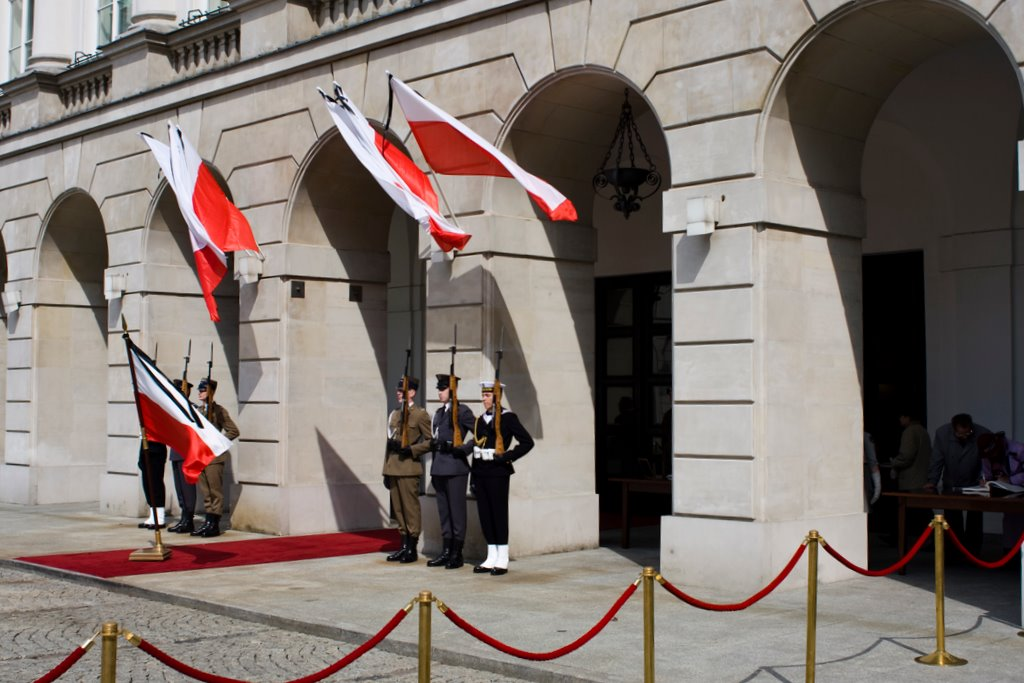 The Presidential Palace in Warsaw after president's plane crash